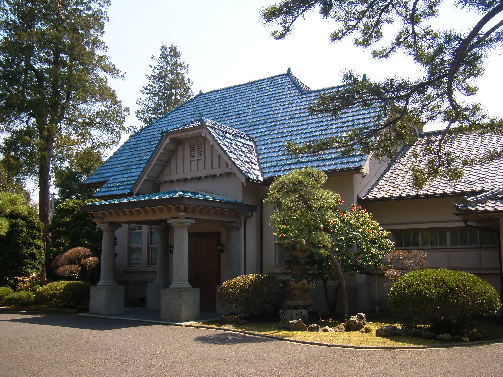 The entrance of the Miyagi Prefecture Governor's Official House. Hirose-machi, Aoba ward, Sendai, Miyagi prefecture, Japan.